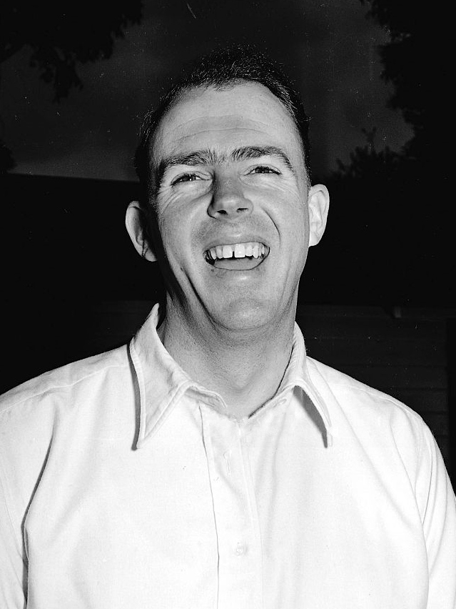 Australian cricketer Bill Johnstone on 30 August 1950 SMH SPORT Picture by DeLISLE